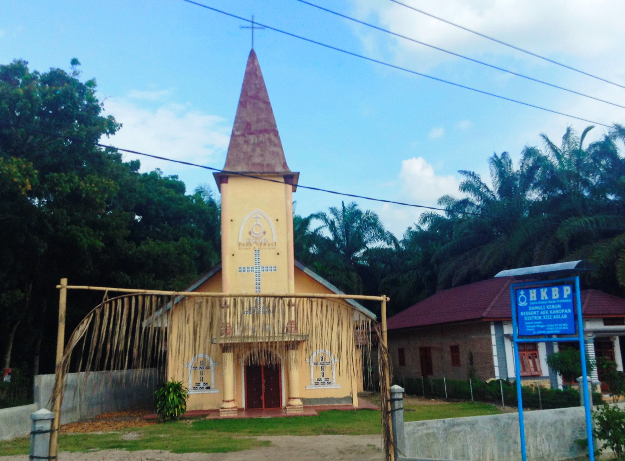 HKBP Damuli Kebun, Church in Damuli, South Kualuh, North Labuhanbatu